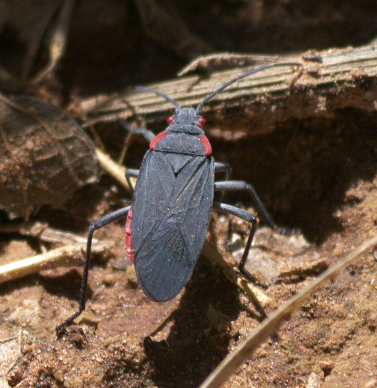 Jadera haematoloma, red-shouldered bug, ID Confidence: 87